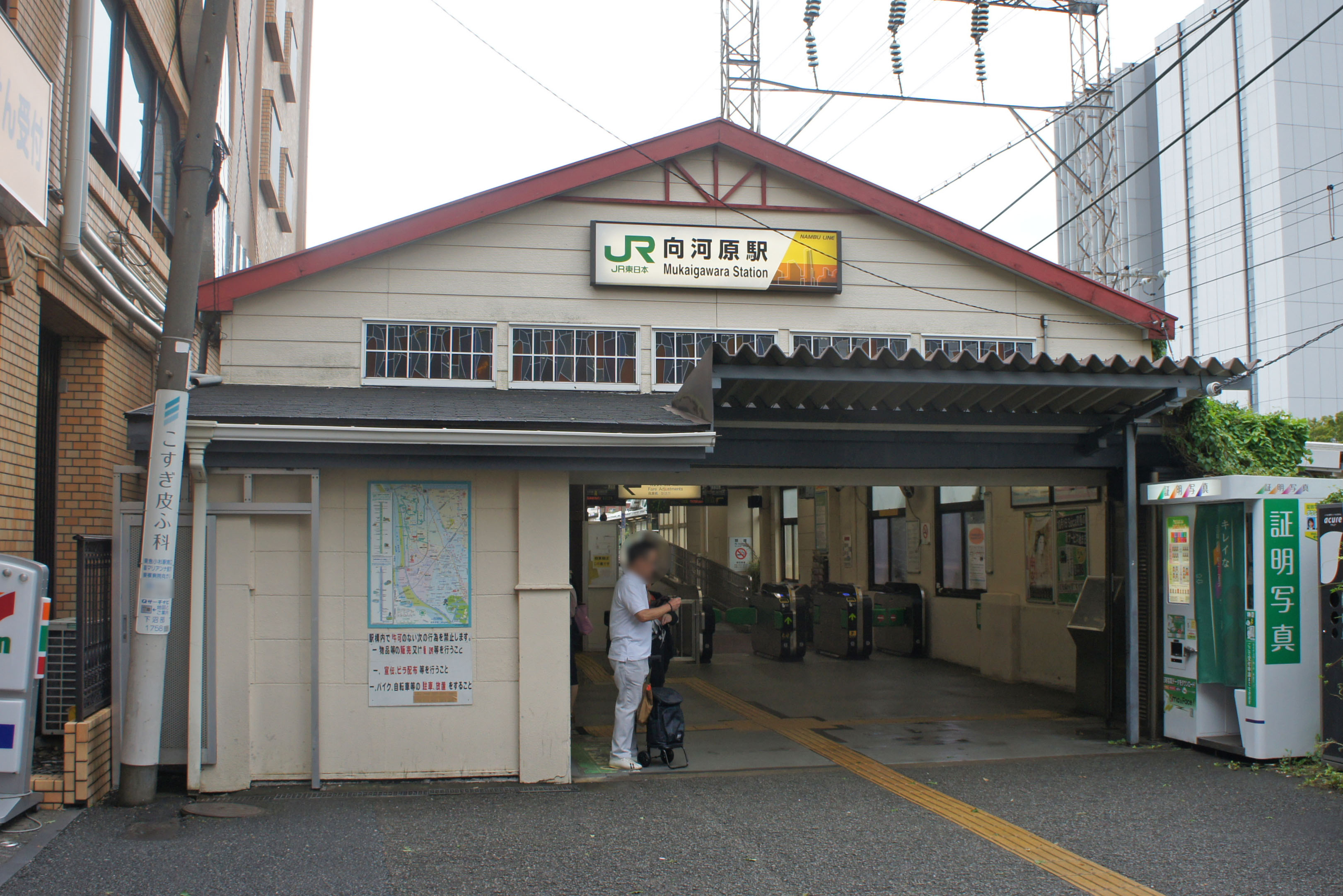 Station building of JR Nambu-Line Mukaigawara Station